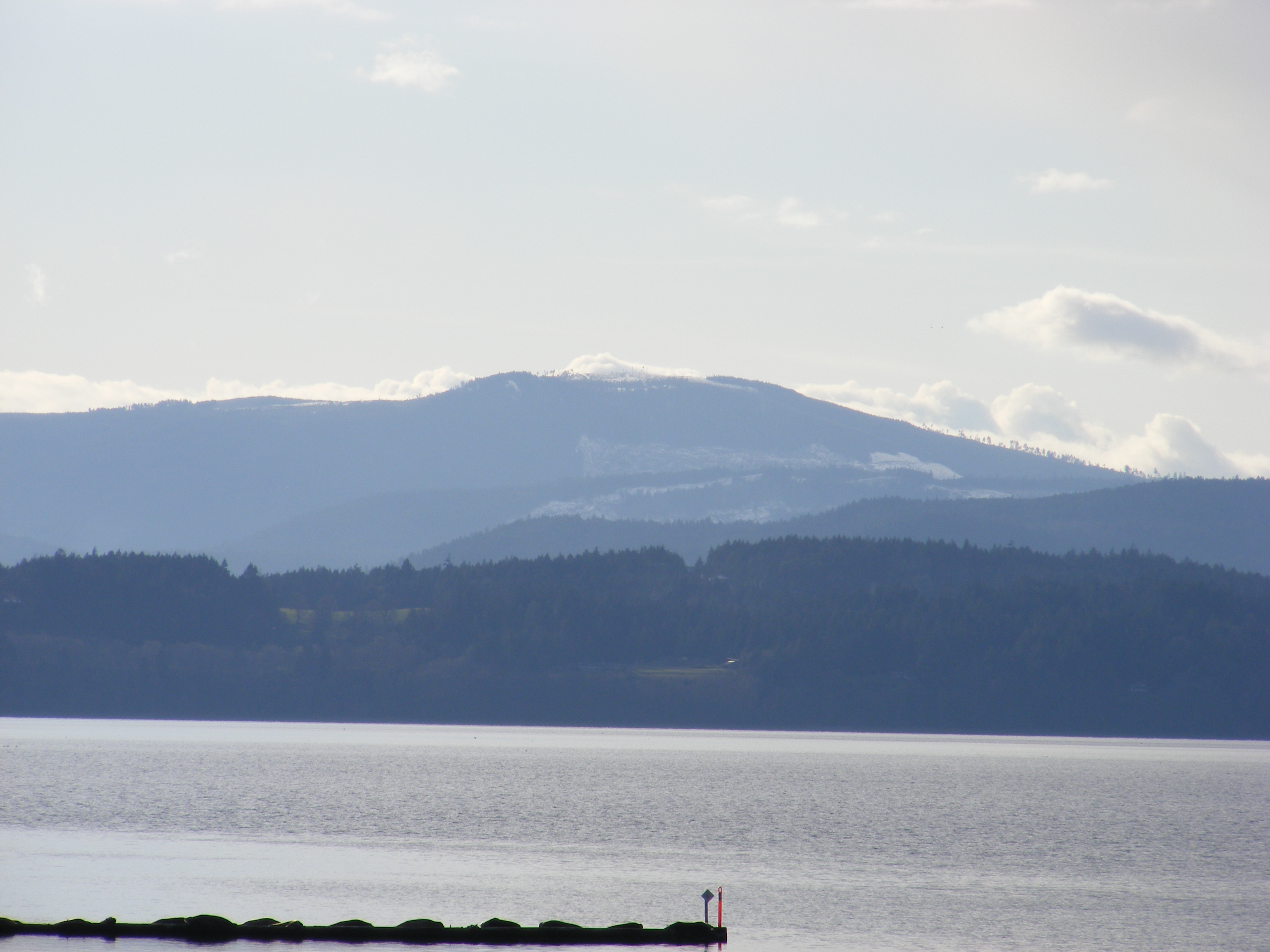 Koksilah Ridge, a mountain range on Vancouver Island, British Columbia